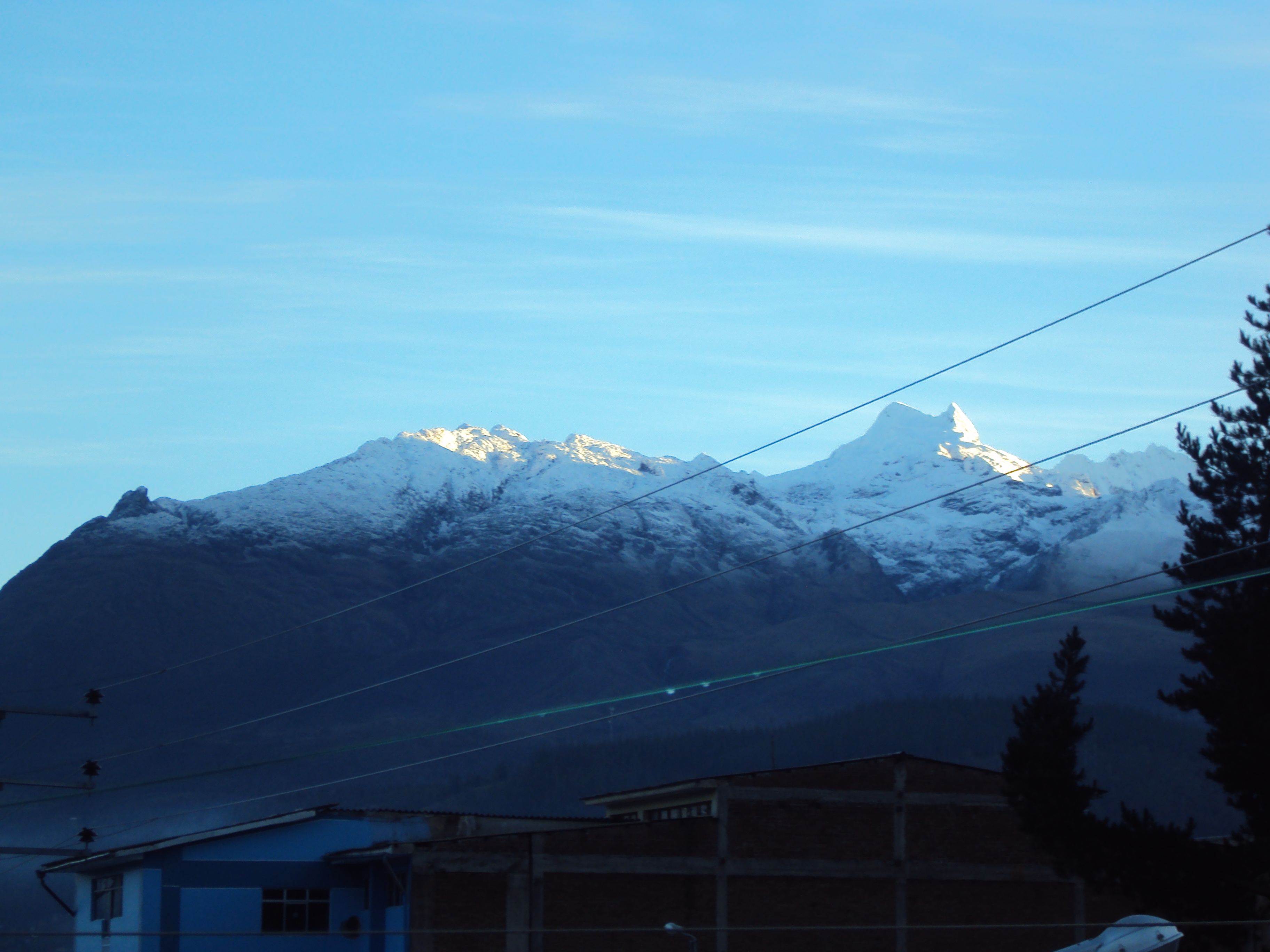 Huaraz in Winter